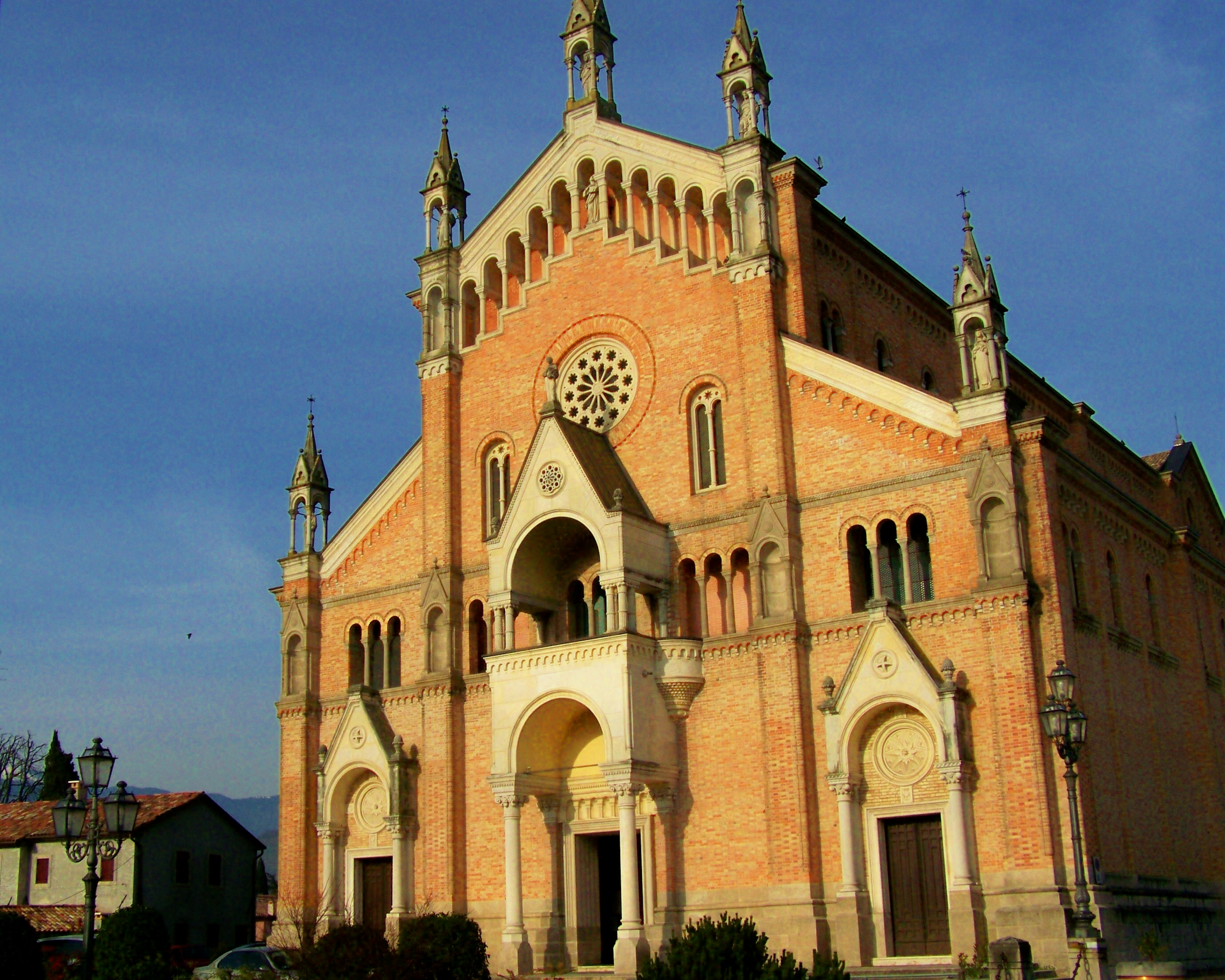 Church of the Holy Assumption in Pieve di Soligo, Italy